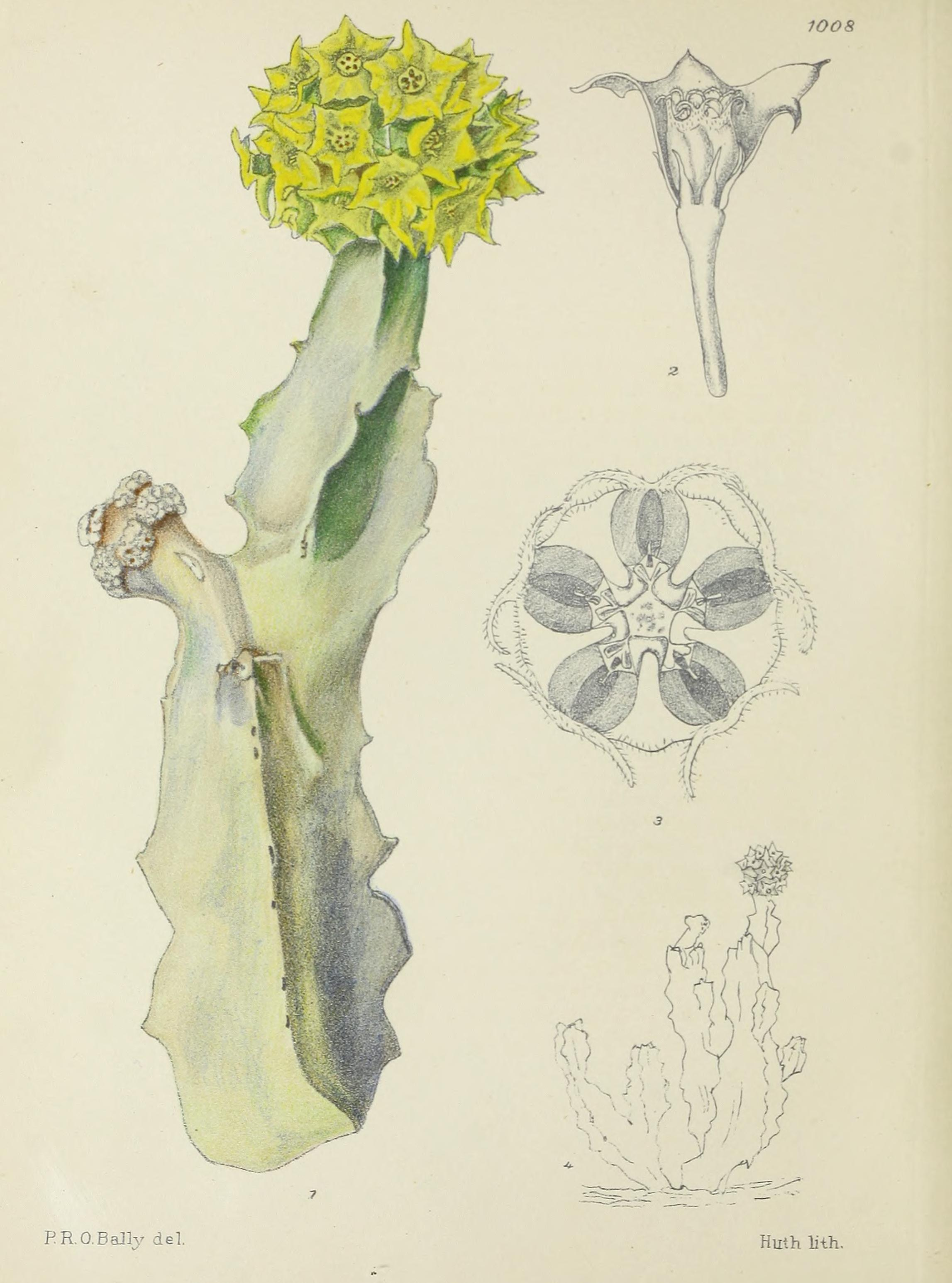 Plate depicting Caralluma somalica . - Pole Evans, I.B., Flowering plants of (South) Africa, vol. 26: t. 1008 (1946)